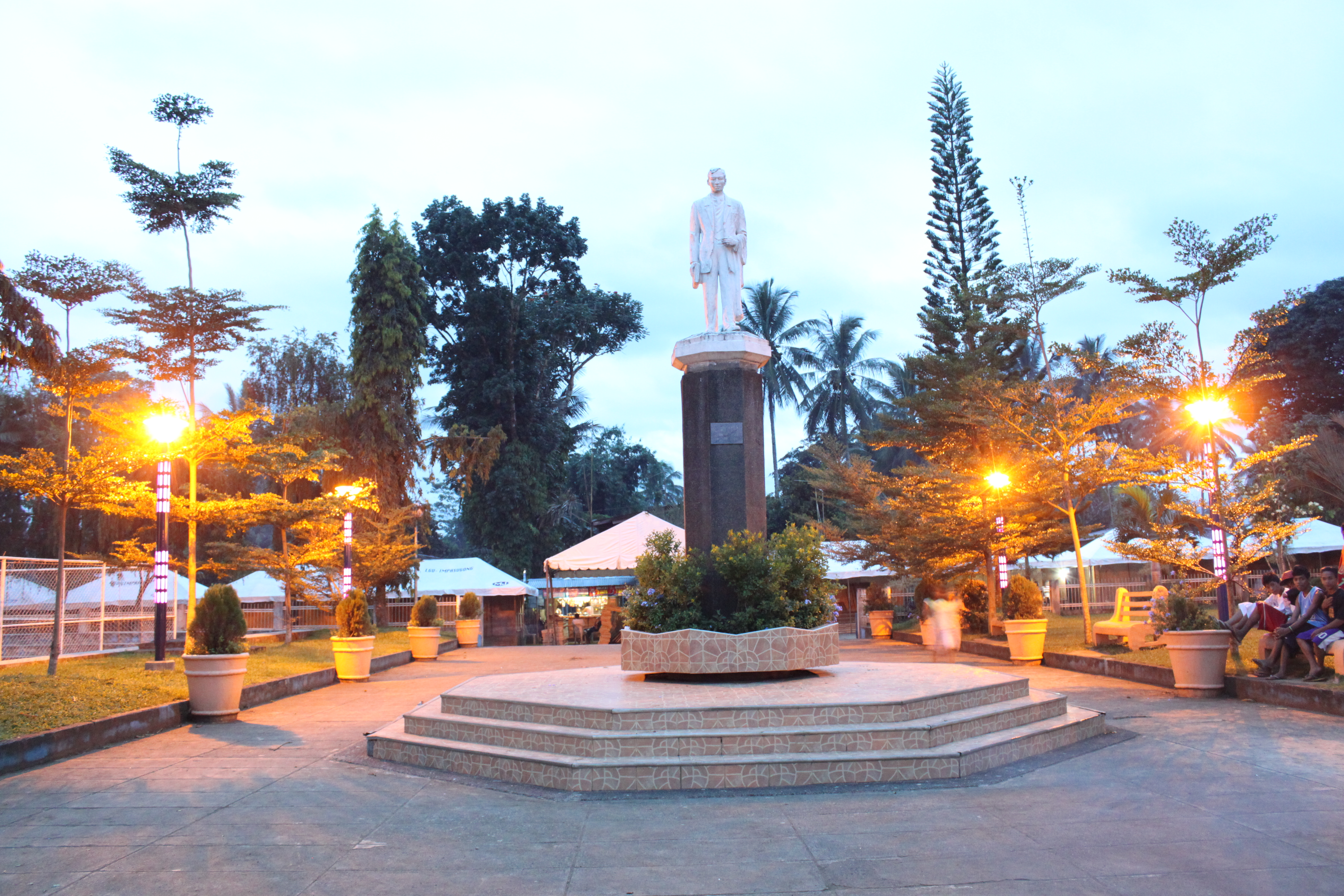 Rizal Monument, Impasugong Plaza, Bukidnon, Mindanao, Philippines